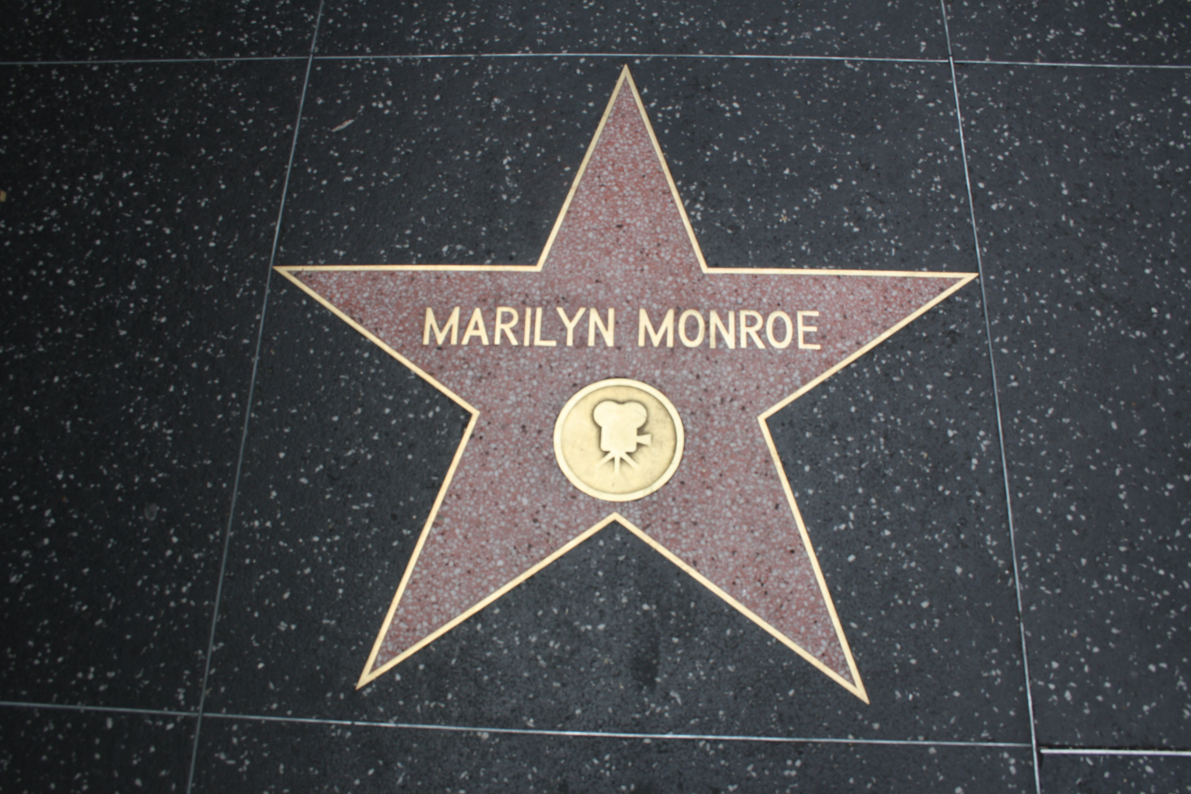 Marilyn Monroe's Hollywood Walk of Fame star from 1960 photographed in 2011